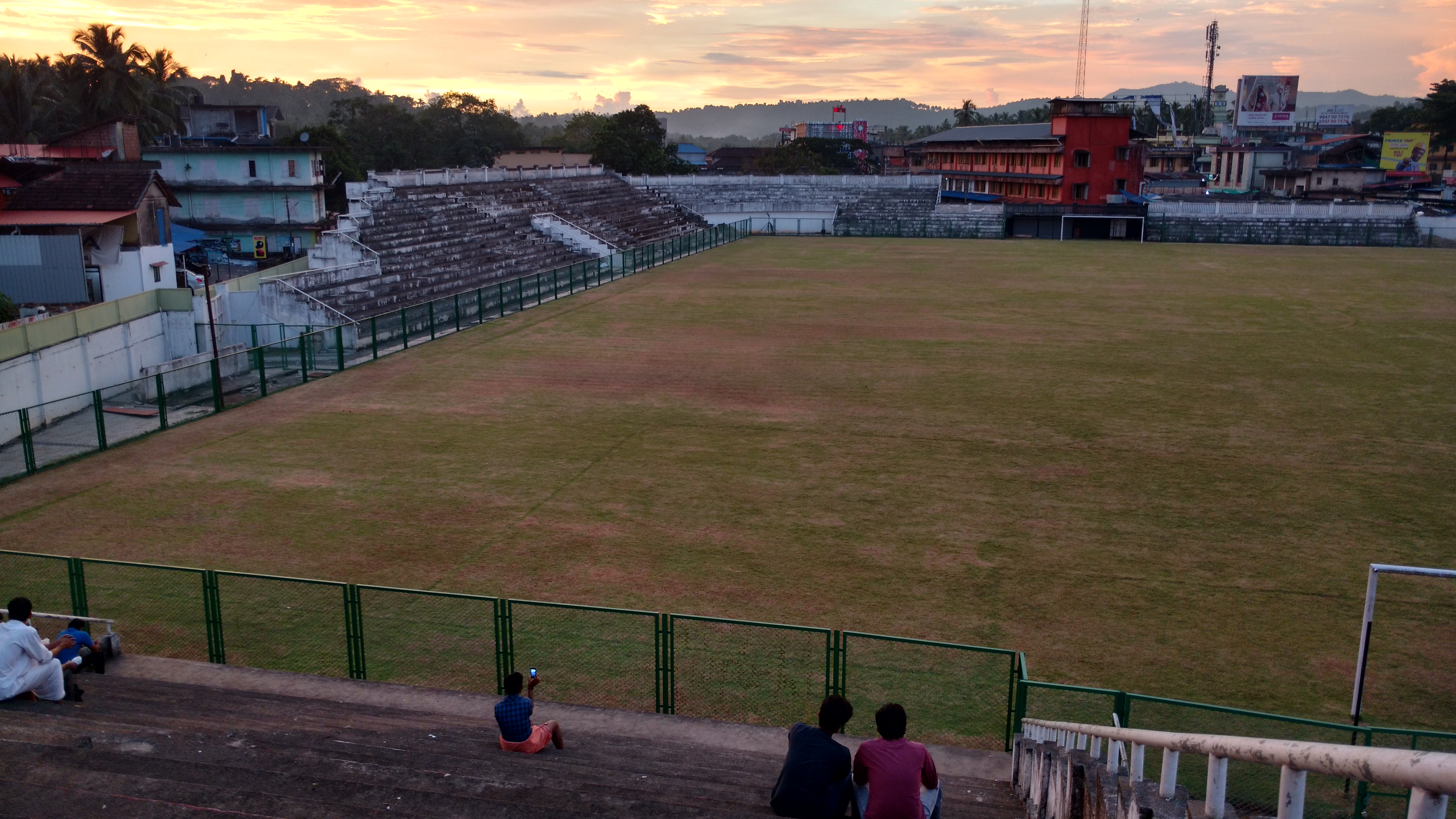 Kottapadi Stadium at Down Hill Malappuram